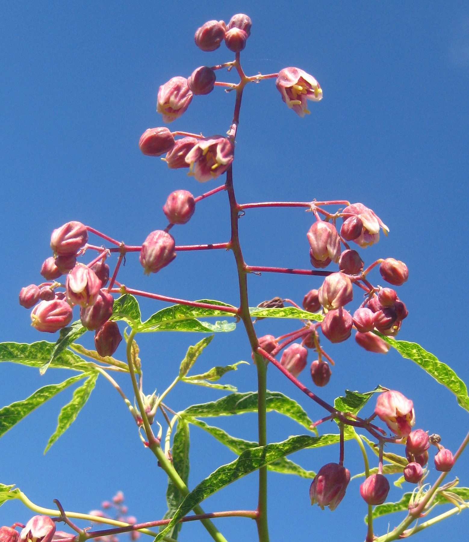 The inflorescence of cassava (Manihot esculenta, Family Euphorbiaceae), a tropical tuber crop. Muruwere, Manica Province of Mozambique. The leaves show symptoms of cassava mosaic disease, caused by a virus. This picture was taken in the early afternoon when the male flowers start to open. Later on they will open more completely.